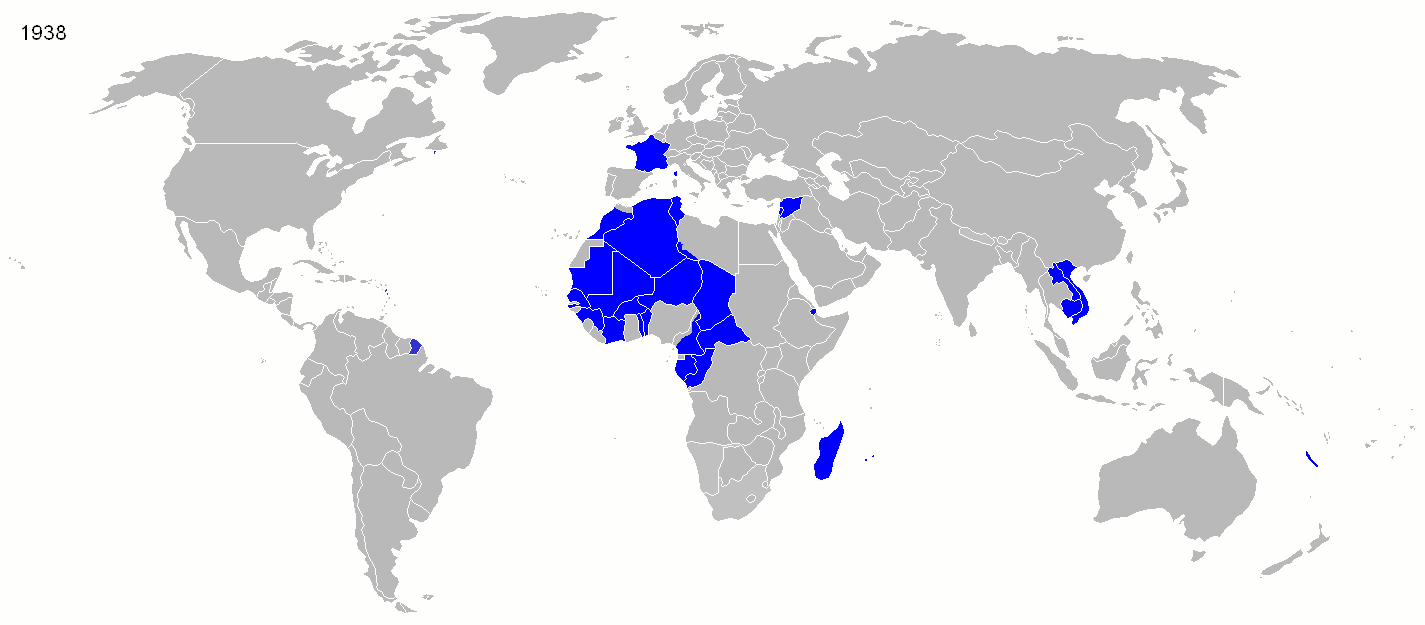 Map of the French Empire in 1938